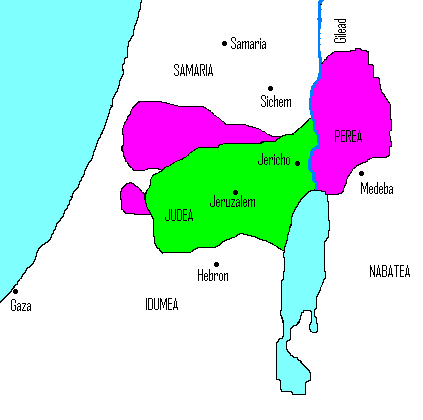 Categorie:Kaart Categorie:Afbeelding oudheid (Original text: Judea onder Jonathan Maccabeüs)